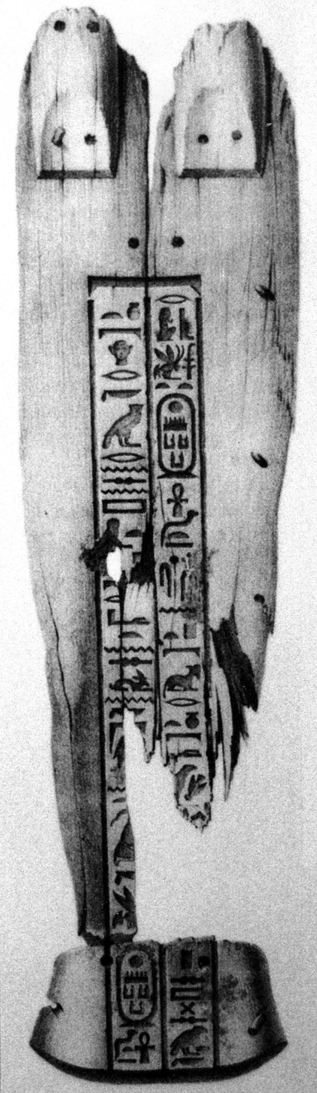 Drawing of the anthropoid coffin fragment inscribed with the name of the pharaoh Menkaura. A "replacemnt" coffin, stylistically dated to the Saite period, some two millenia after the king's death. Original drawing made by excavator Richard Vyse and published in 1840.